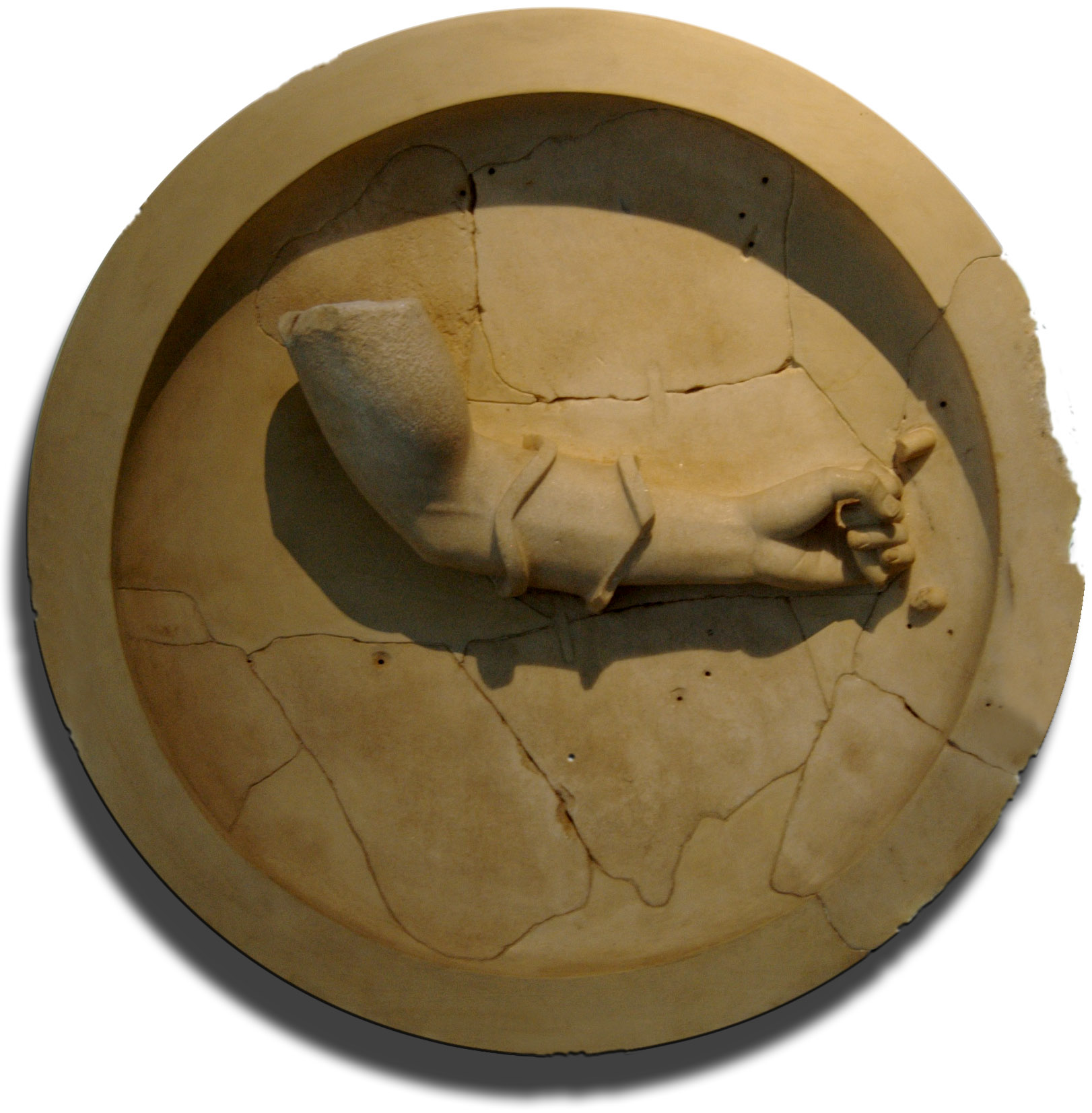 Arm and shield of the warrior W-X (Trojan) of the west pediment of the Temple of Aphaia, ca. 505–500 BC.